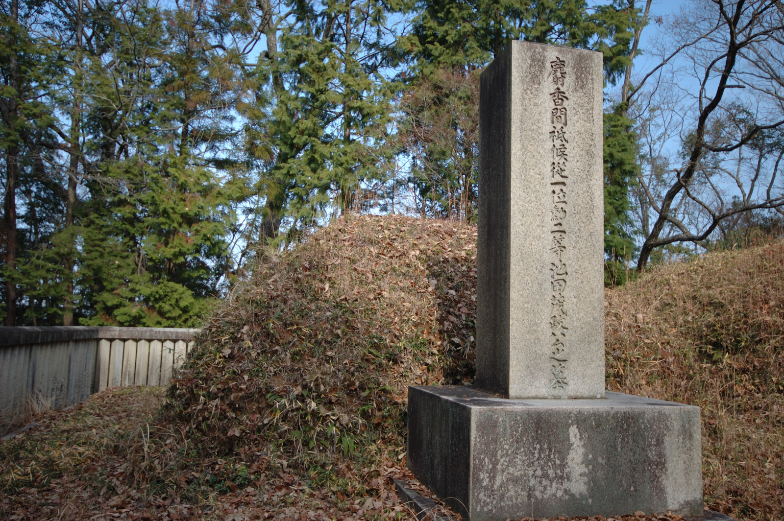 grave of Ikeda Mochimasa